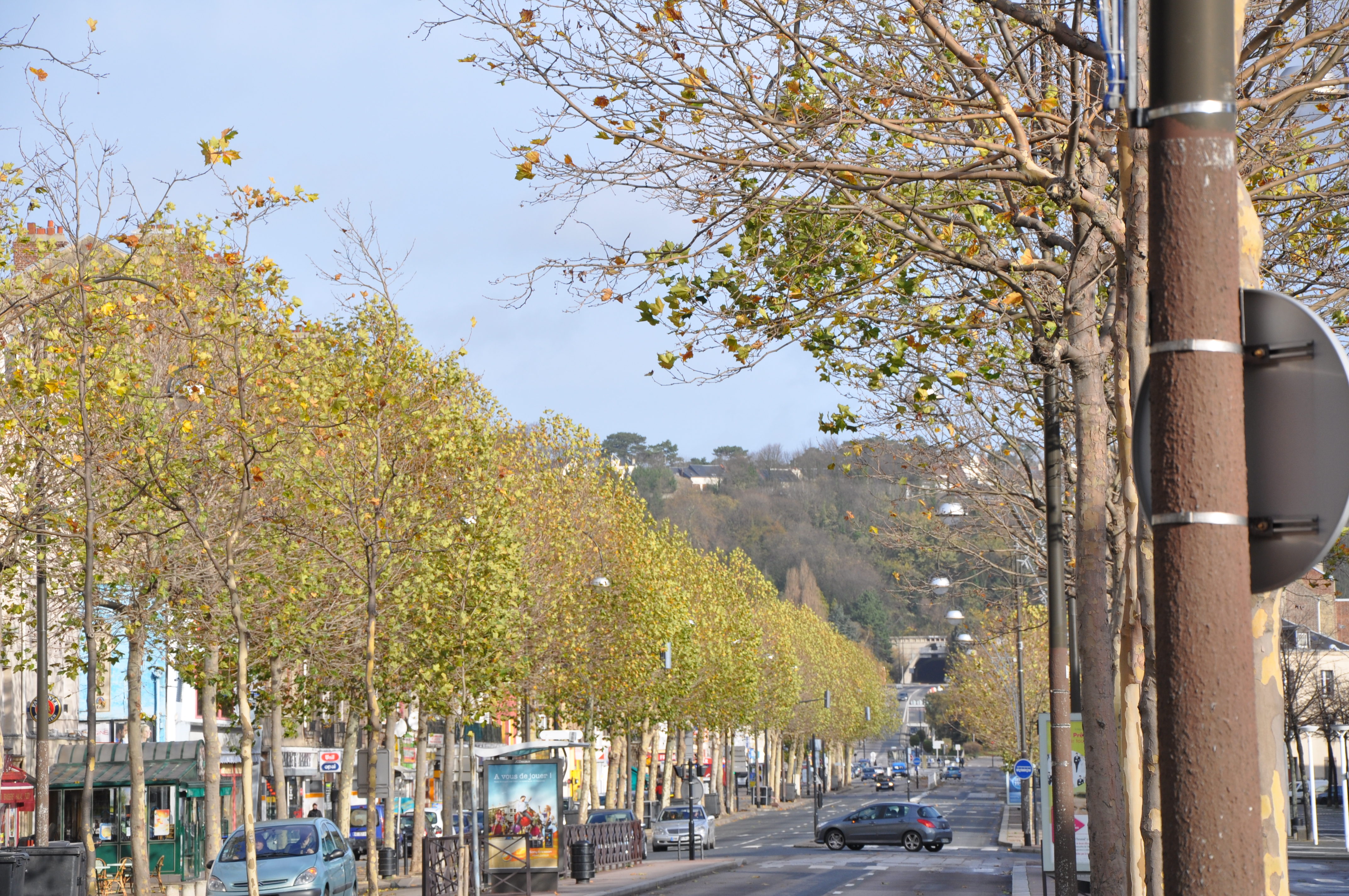 Le Havre (France): the "Cours de la République", from Jenner tunnel to railway station, before new tramway congtruction.